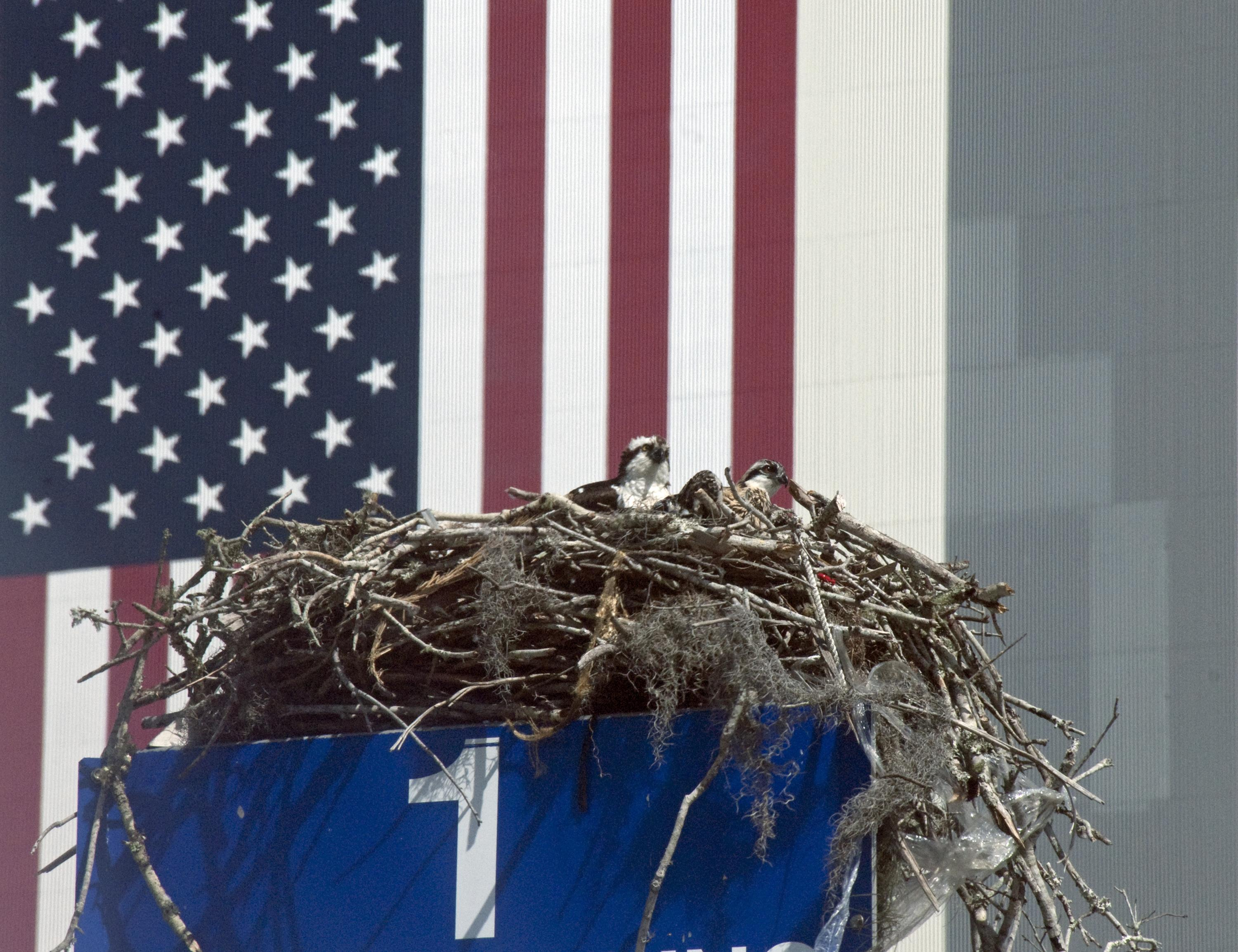 At NASA's Kennedy Space Center in Florida, an adult osprey guards its young in a nest built on a platform in the press site parking lot, backdropped by the 209-foot by 110-foot American flag painted on the side of the Vehicle Assembly Building.